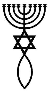 A Messianic Seal with 8 Caldles as described by prophet Zechariah, in book of Apocalypse 11:4; The 7 Candles version, a simbol of the early Jerusalem Apostolic Assembly, named also "the key of David" in Apocalypse 3:7.